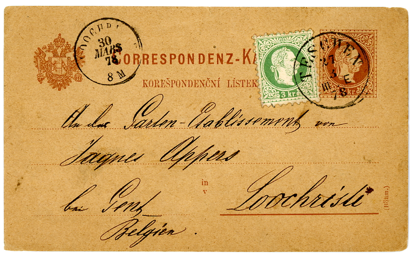 Austrian 2 kr Postal Card (Czech version) sent from TESCHEN (Silesia) in 1878, to Belgium, with 3 kr for foreign. .